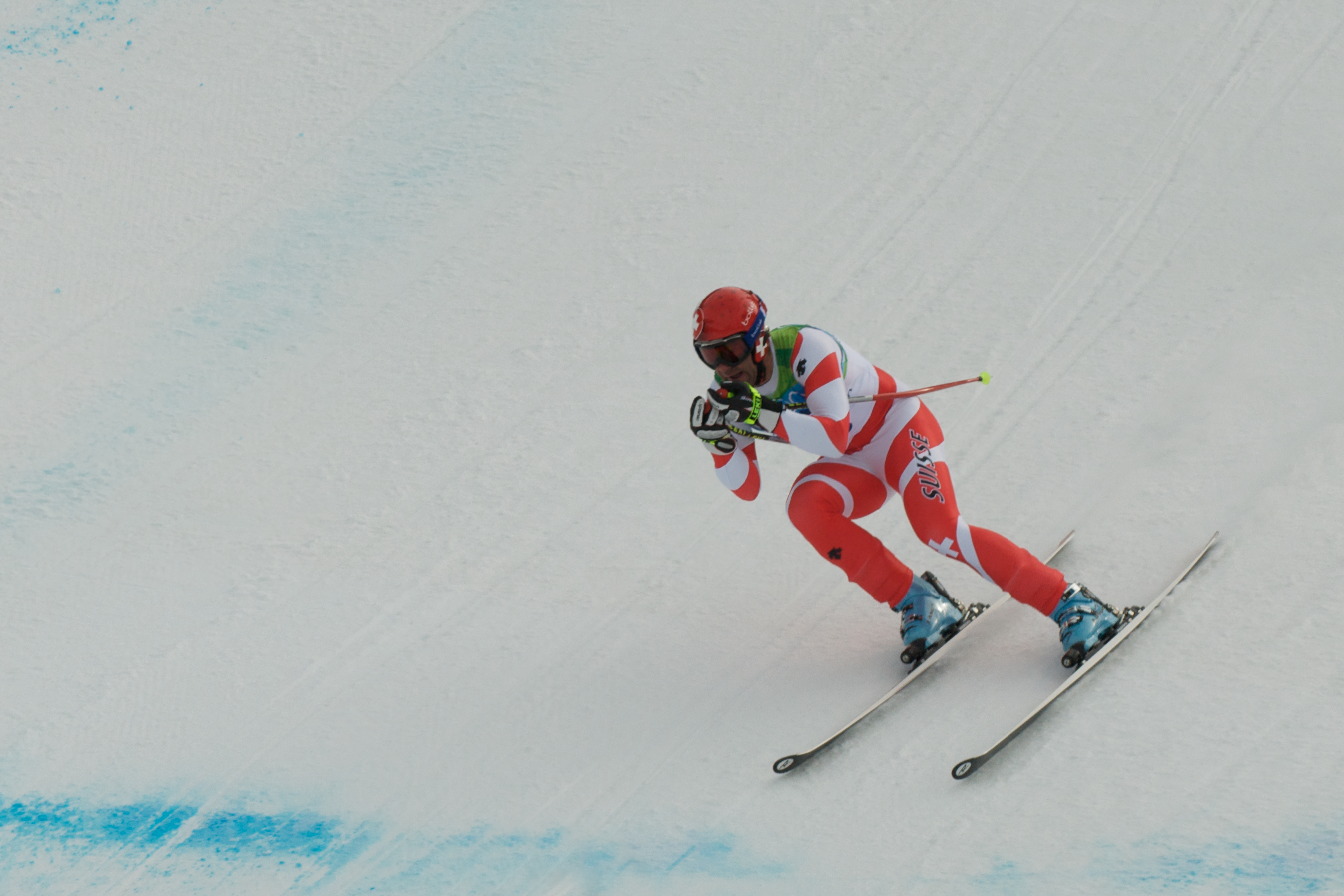 Men's Downhill at the 2010 Winter Olympics: Gold medalist Didier Défago of Switzerland on his winning run.